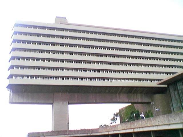 Own picture, taken with cellphone camera.